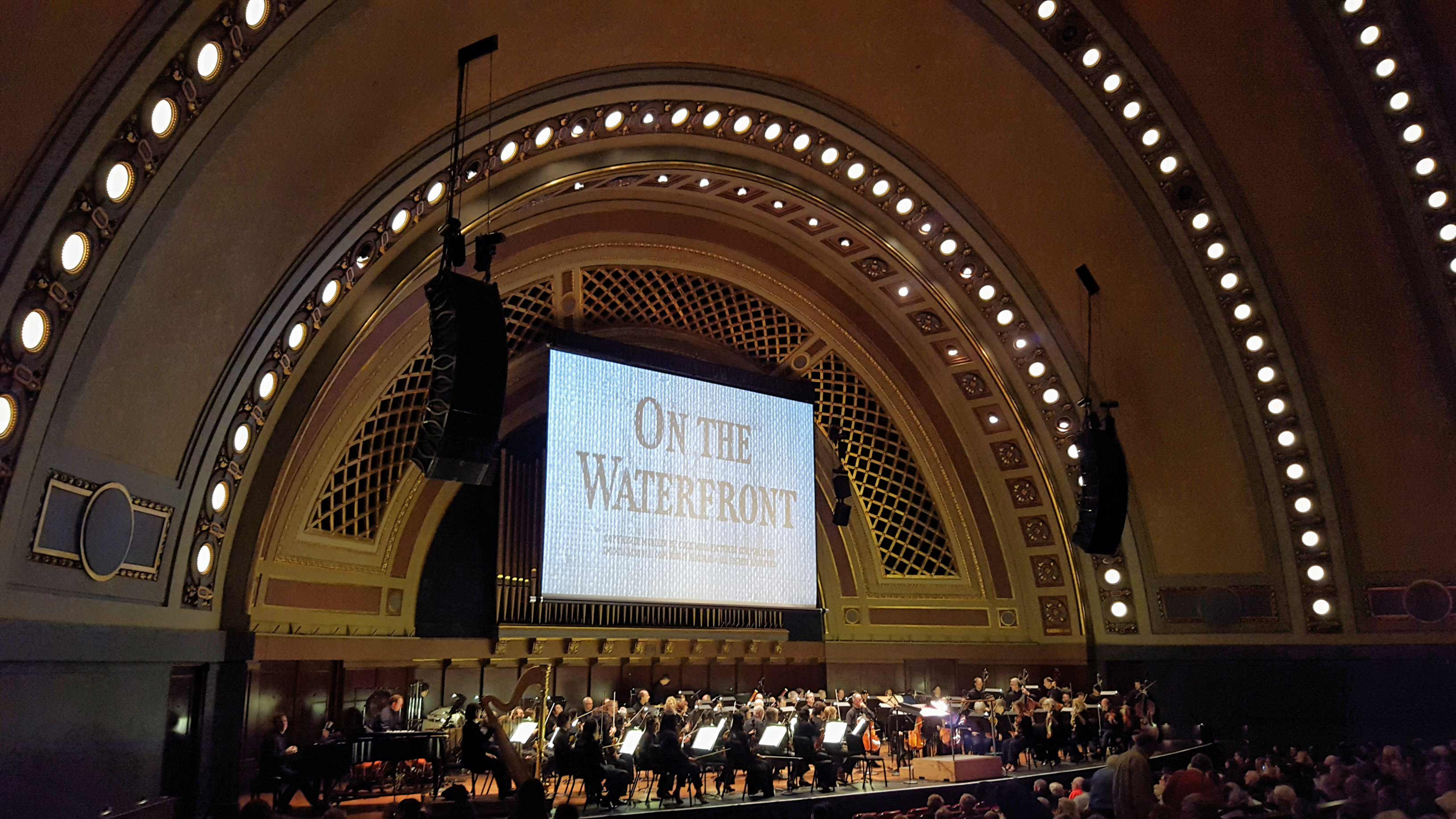 Inside of Hill Auditorium